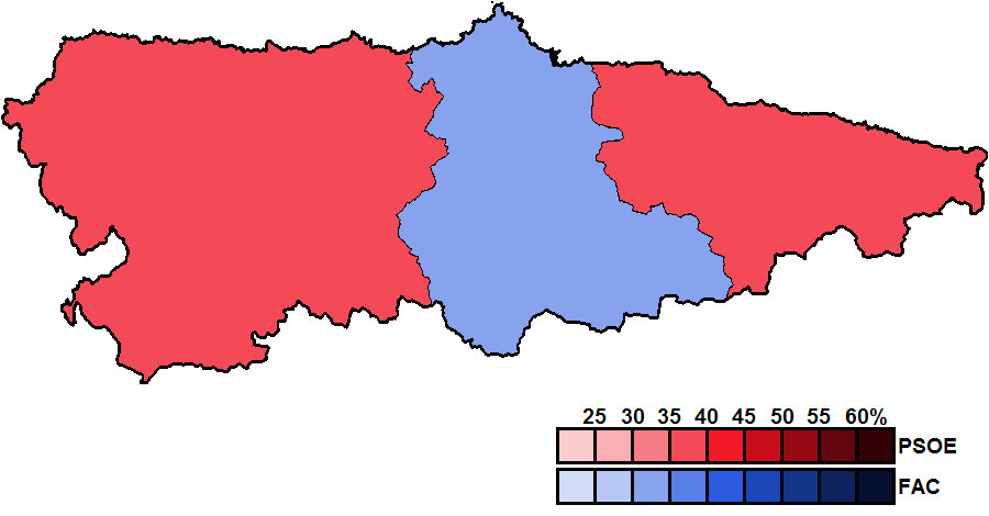 District results for the 2011 Asturian regional election.